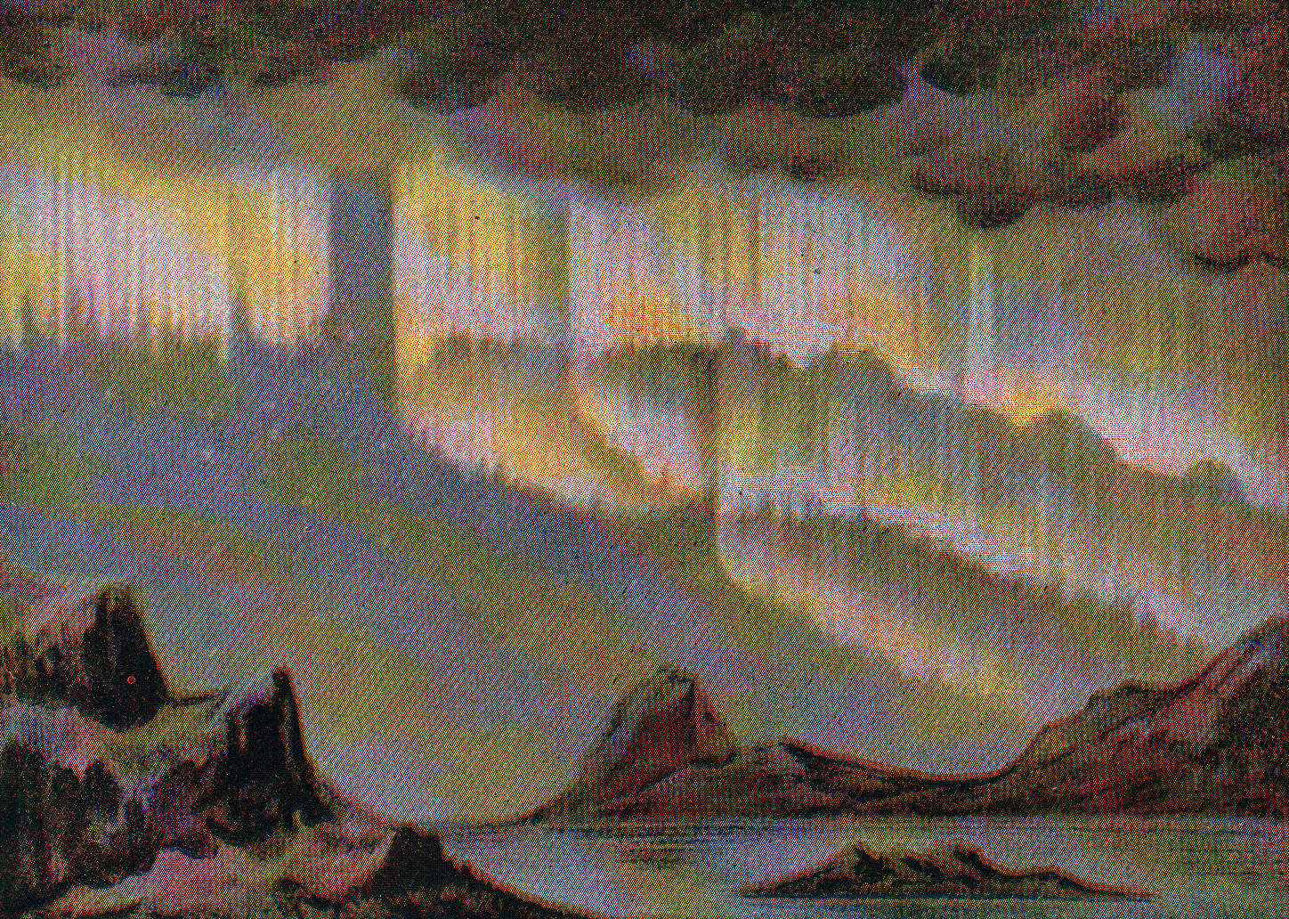 Aurora in form of drapery observed at Port Foulke, Greenland